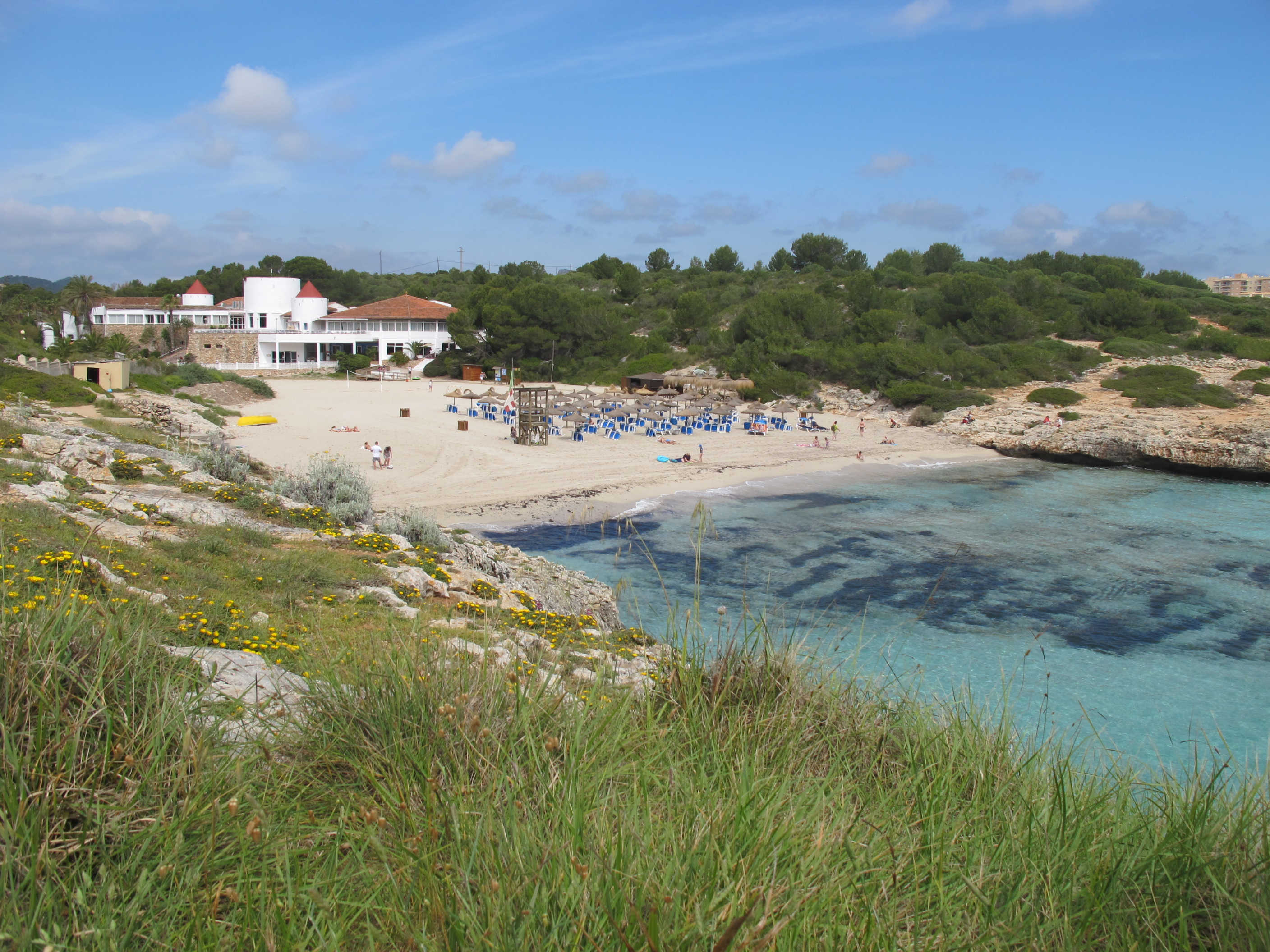 A view from the south to the beach Cala Domingo Petits.